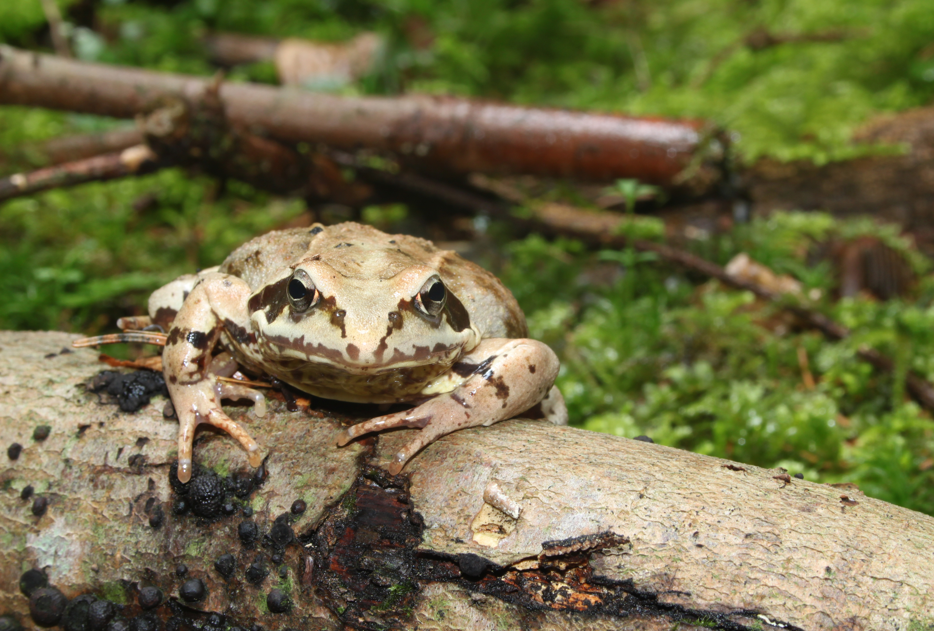 European Common Frog or European Common Brown Frog Rana temporaria, Family: Ranidae, Location: Germany, Ulm, Eggingen